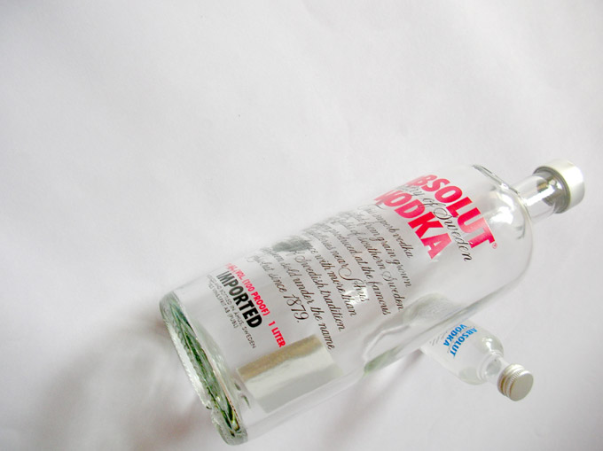 Photographed by myself in my home